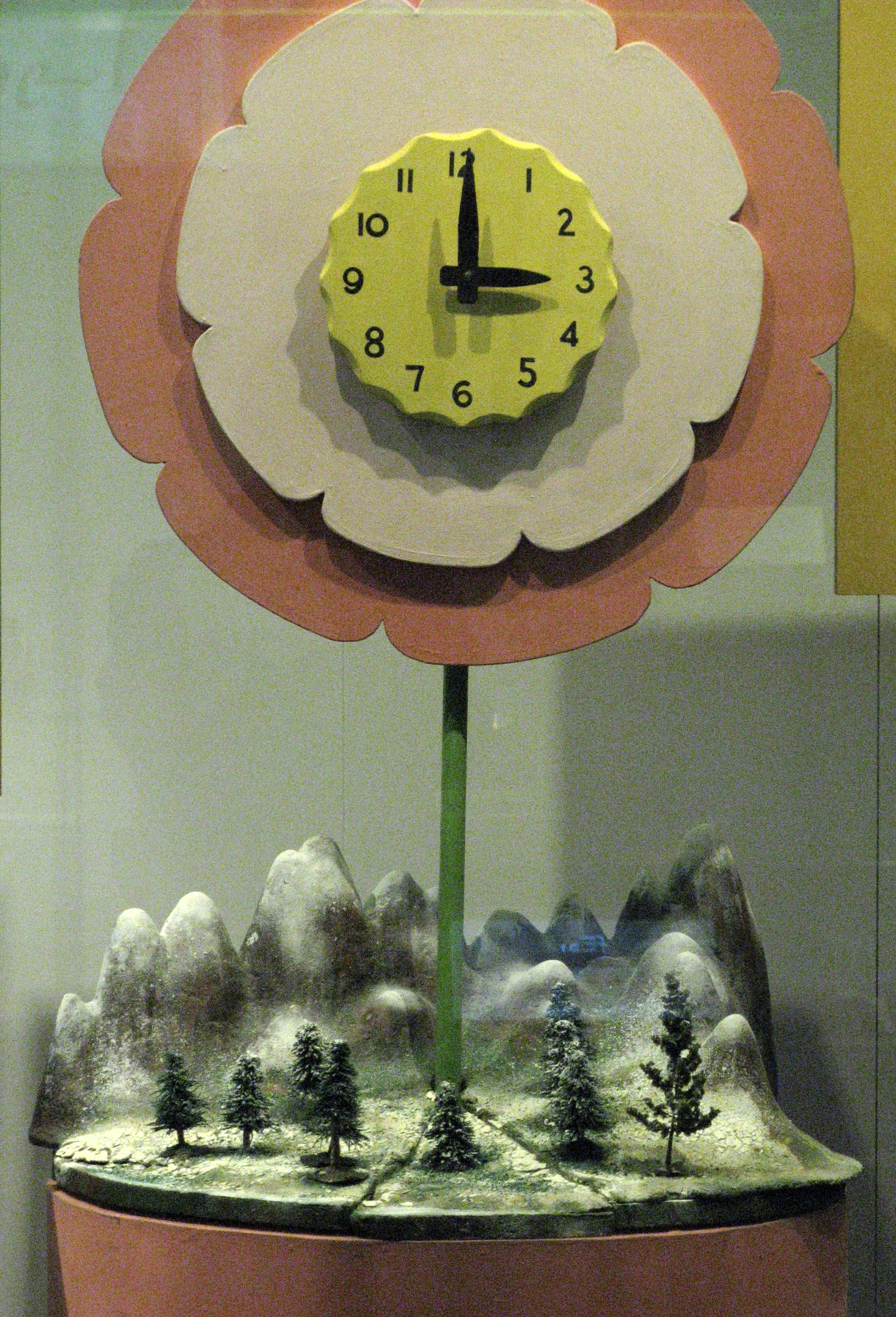 The flower clock used in the Australian television series "Play School" from 1966 to 1999. Displayed at the National Museum of Australia, item 2002.0049.0003